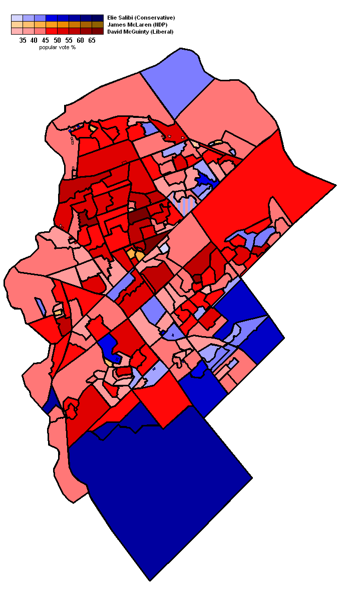 Summary: Map of Ottawa South, 2011 election